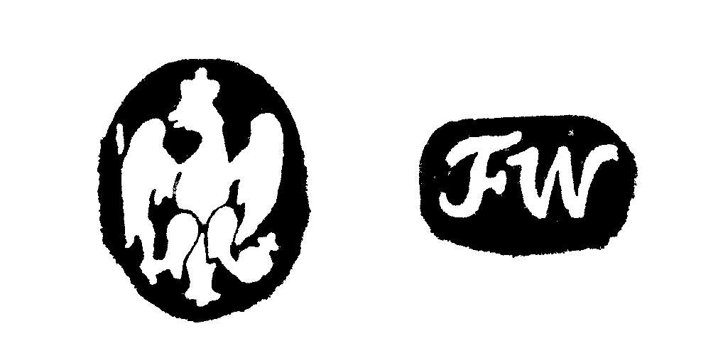 Duty mark for silver work, Prussia, from 1809 on